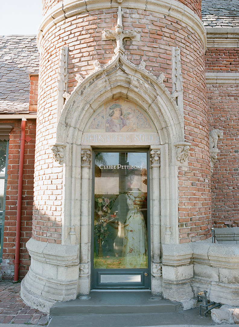 7415 Beverly Boulevard, Los Angeles, CA 90036 in the Heinsbergen Decorating Company Building